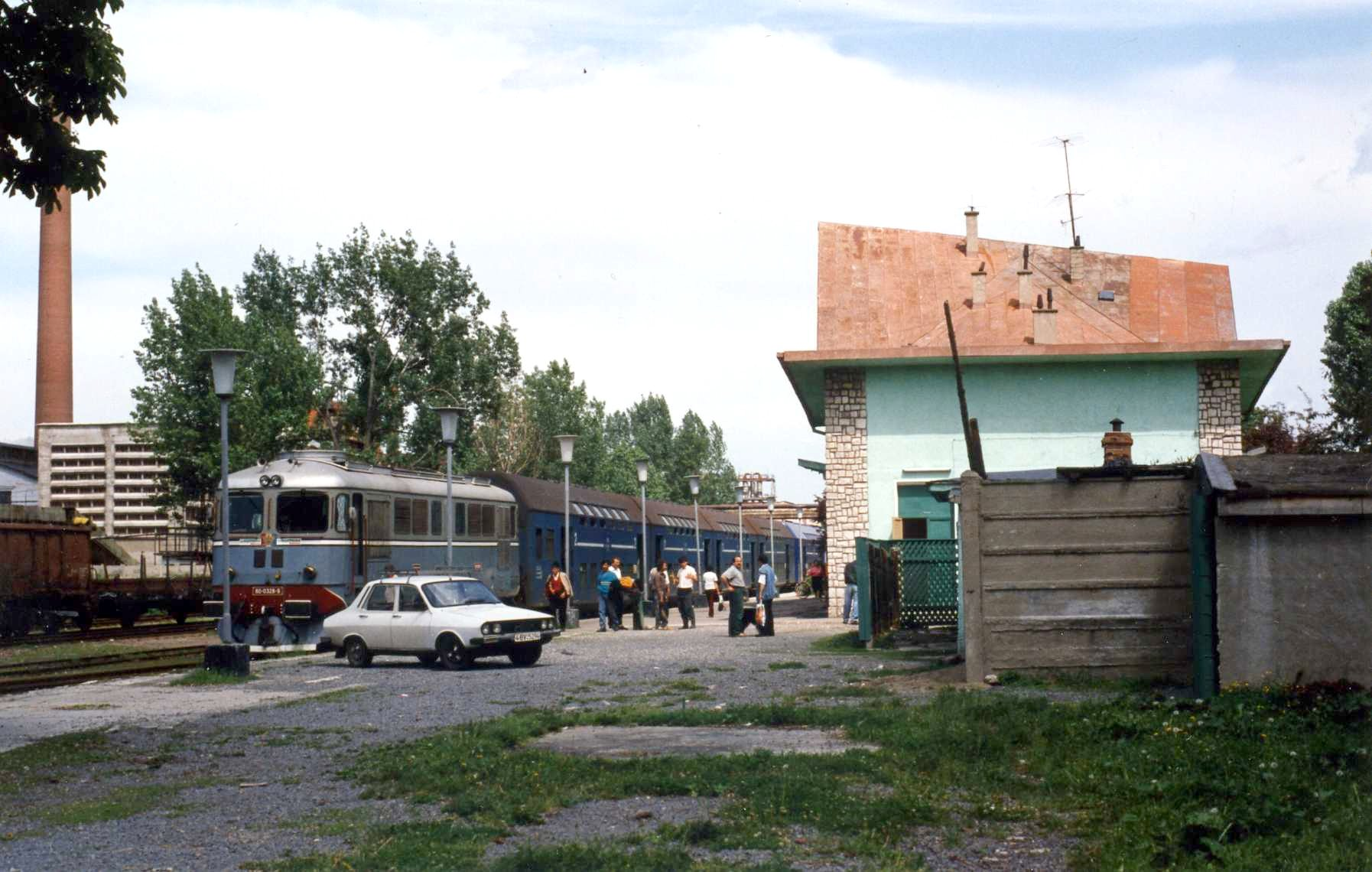 In the background a large industry which probably filled the goods wagons There is some fine stone cladding on the railway station. A train of double deck coaches arrives from Braşov.